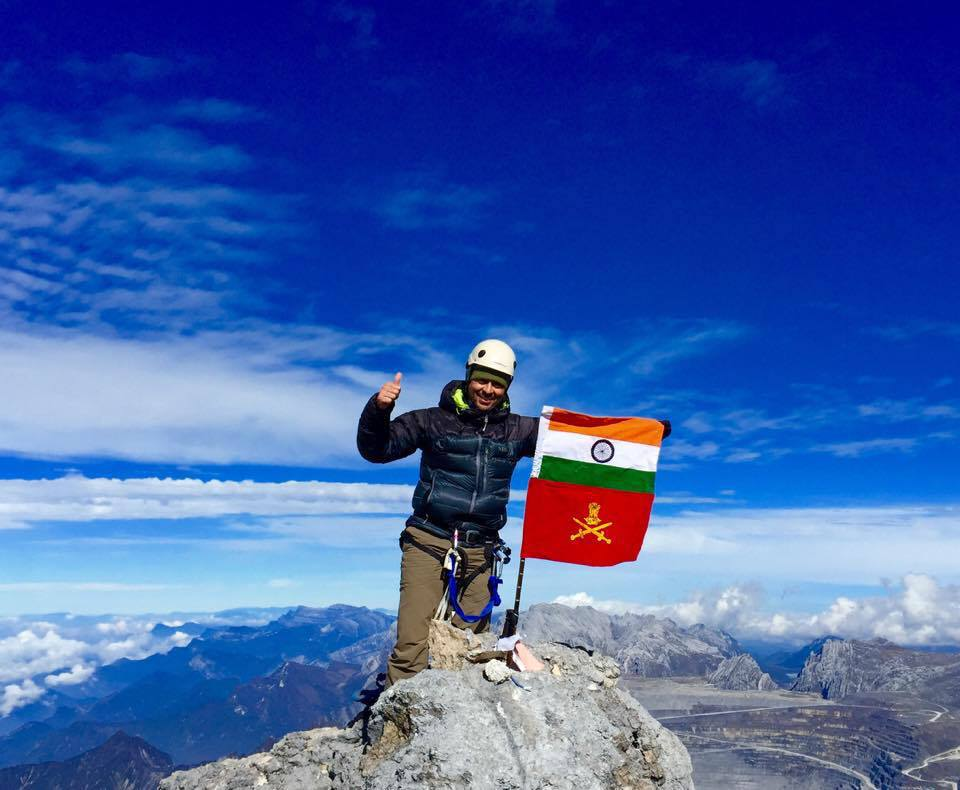 Lt Col Ranveer Singh Jamwal with Indian and Indian Army flag.